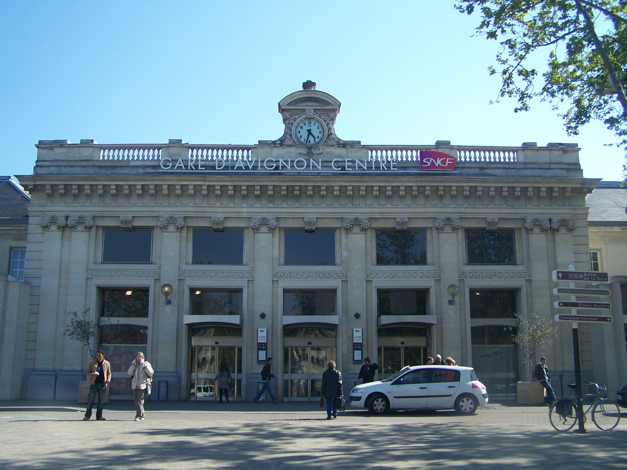 Front of the station of Avignon-Centre, in Vaucluse, France.